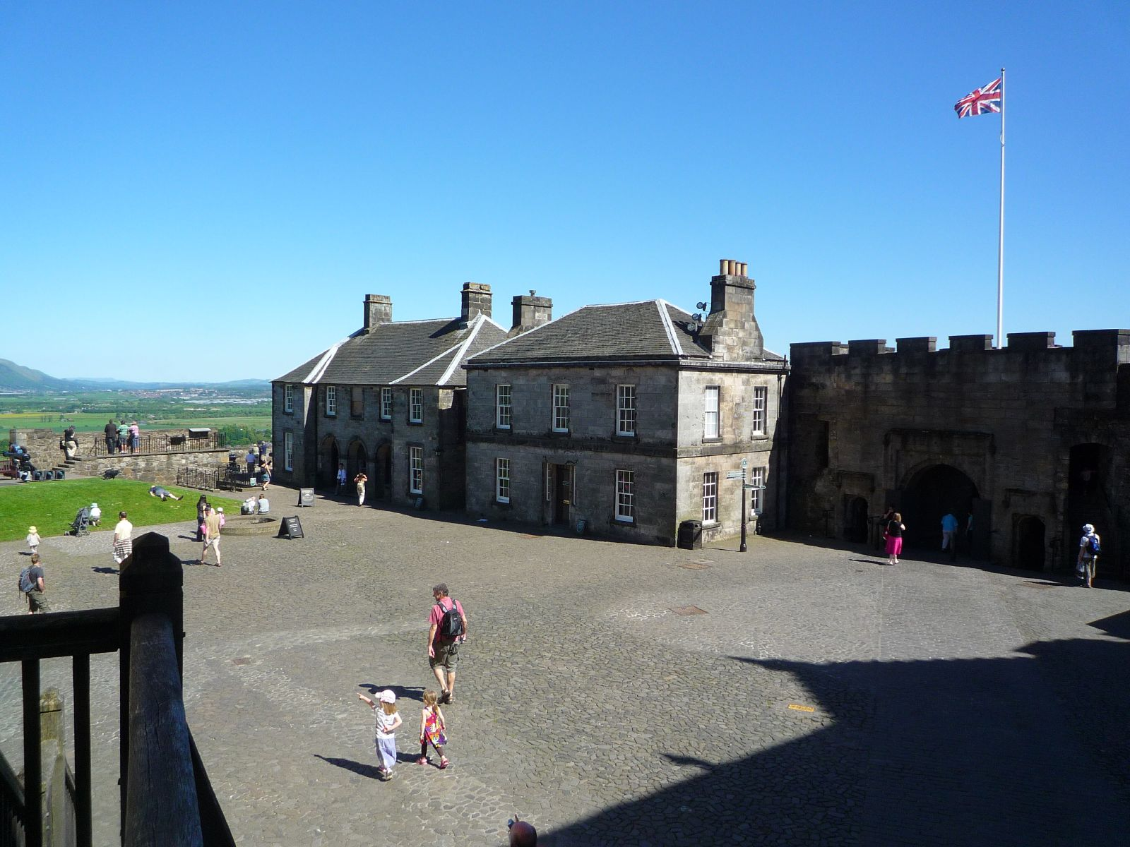 Stirling Castle, Scotland. (And lots of Finnish people for some reason)